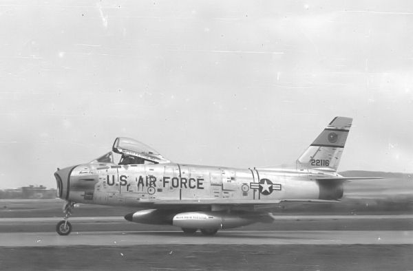 F-86H Serial 52-2116 of the 138th Tactical Fighter Squadron/102d Tactical Fighter Wing Deployed For Berlin Crisis from The New York Air National Guard - Phalsbourg-Bourscheid Air Base France - July 1961; Piloted by Major W. H. Bortle, NYANG, 138th TFS, "The Boys from Syracuse". Source: United States Air Force Historical Research Agency - Maxwell AFB, Alabama